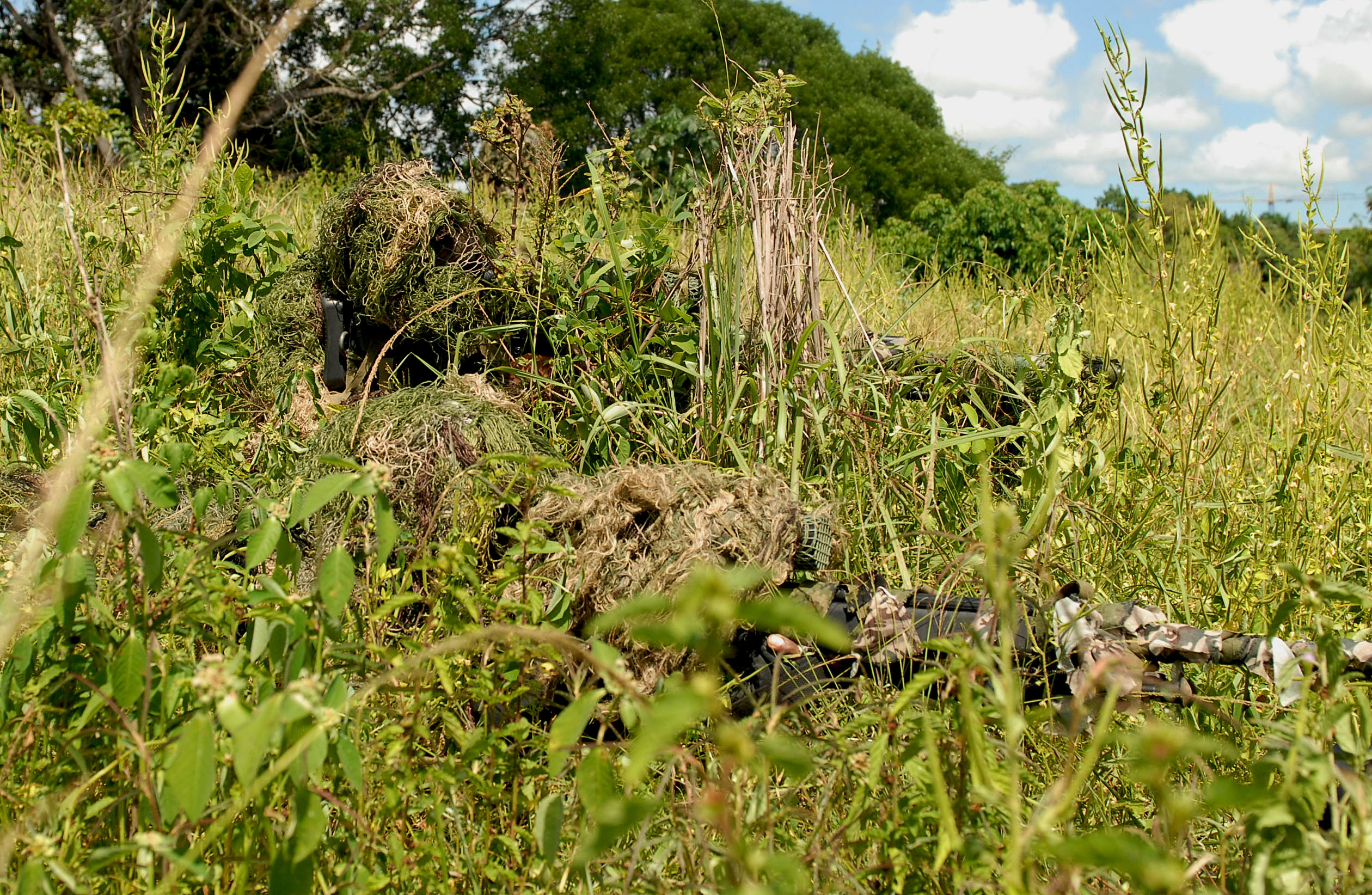 Two concealed Jamaican Special Operations observe their target during the Sniper Stalking exercise at the Fuerzas Comando Special Operations Competition, June 17. Jamaica is just one of 18 countries from the Western hemisphere competing to earn the title of "Best Comando Team." Fuerzas Comando was designed to give neighboring countries in the Caribbean, Central and South America a chance to test their military strength and also promote partnership among throughout the region.